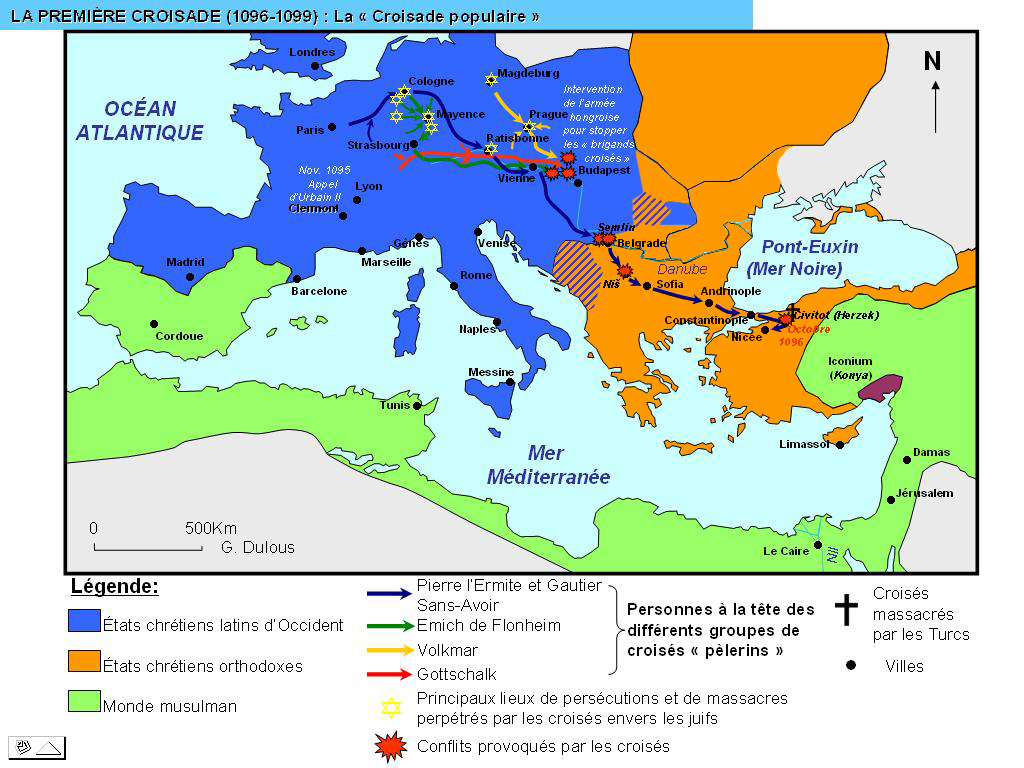 People's crusade